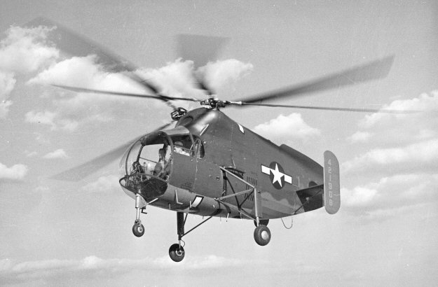 The second prototype Kellett XR-8 helicopter undergoing evaluation by the United States Army Air Forces.